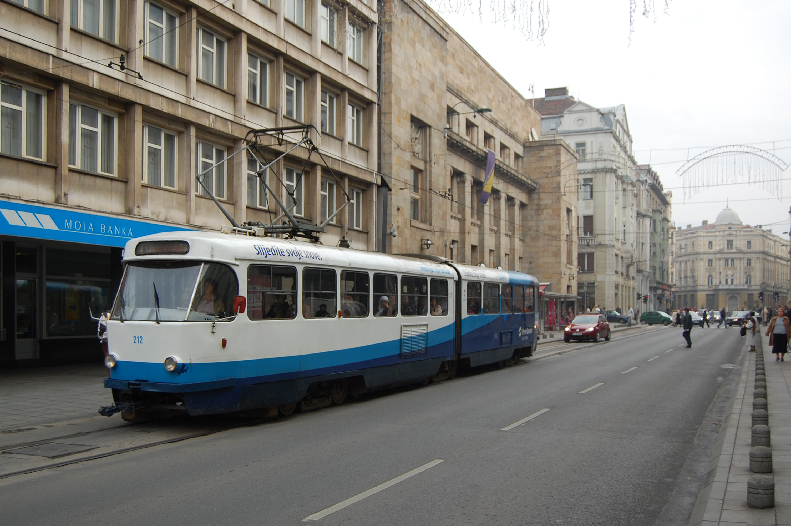 Tram #212 running westbound past Banka, Line #3, November 8, 2011